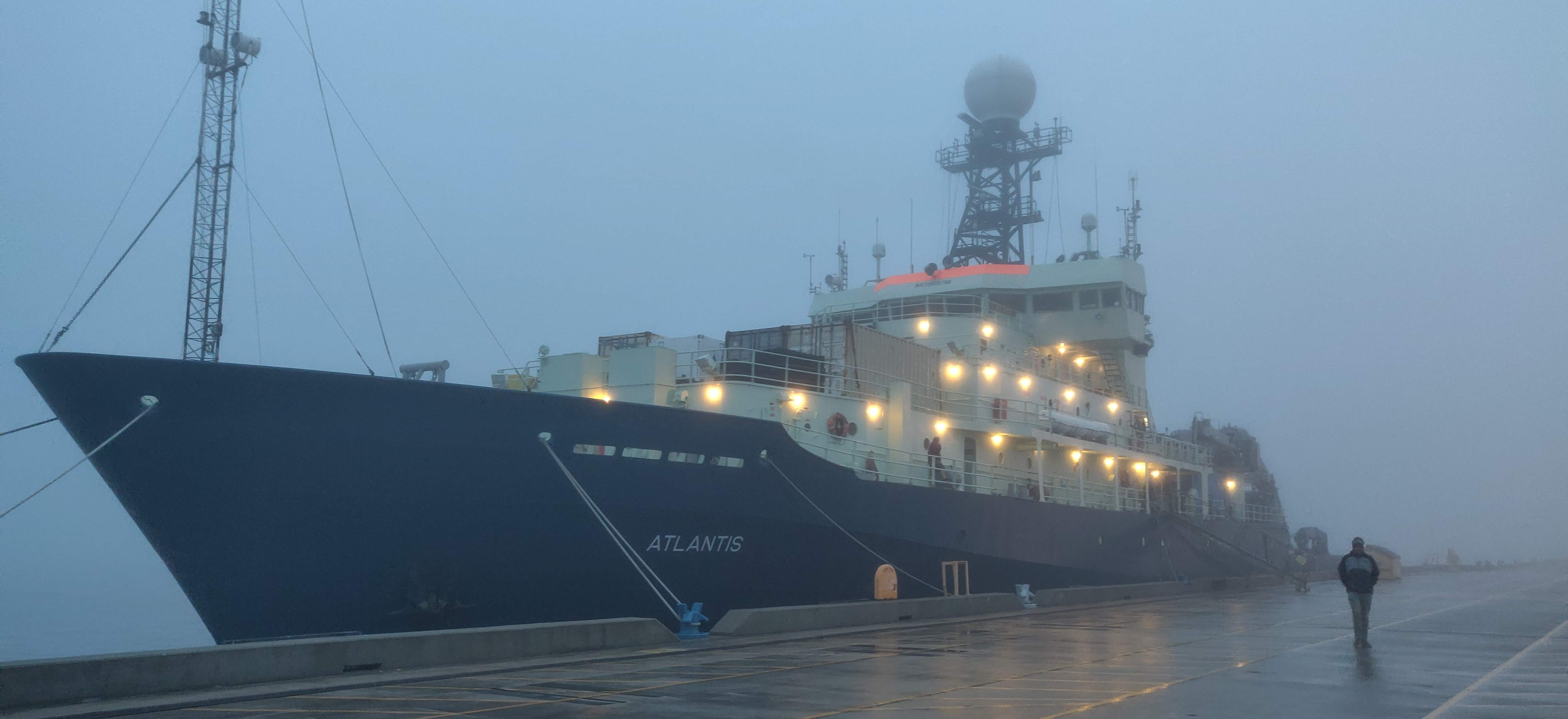 The R/V Atlantis docked in Gulfport, Mississippi, following the conclusion of cruise AT42-22 in February 2020.